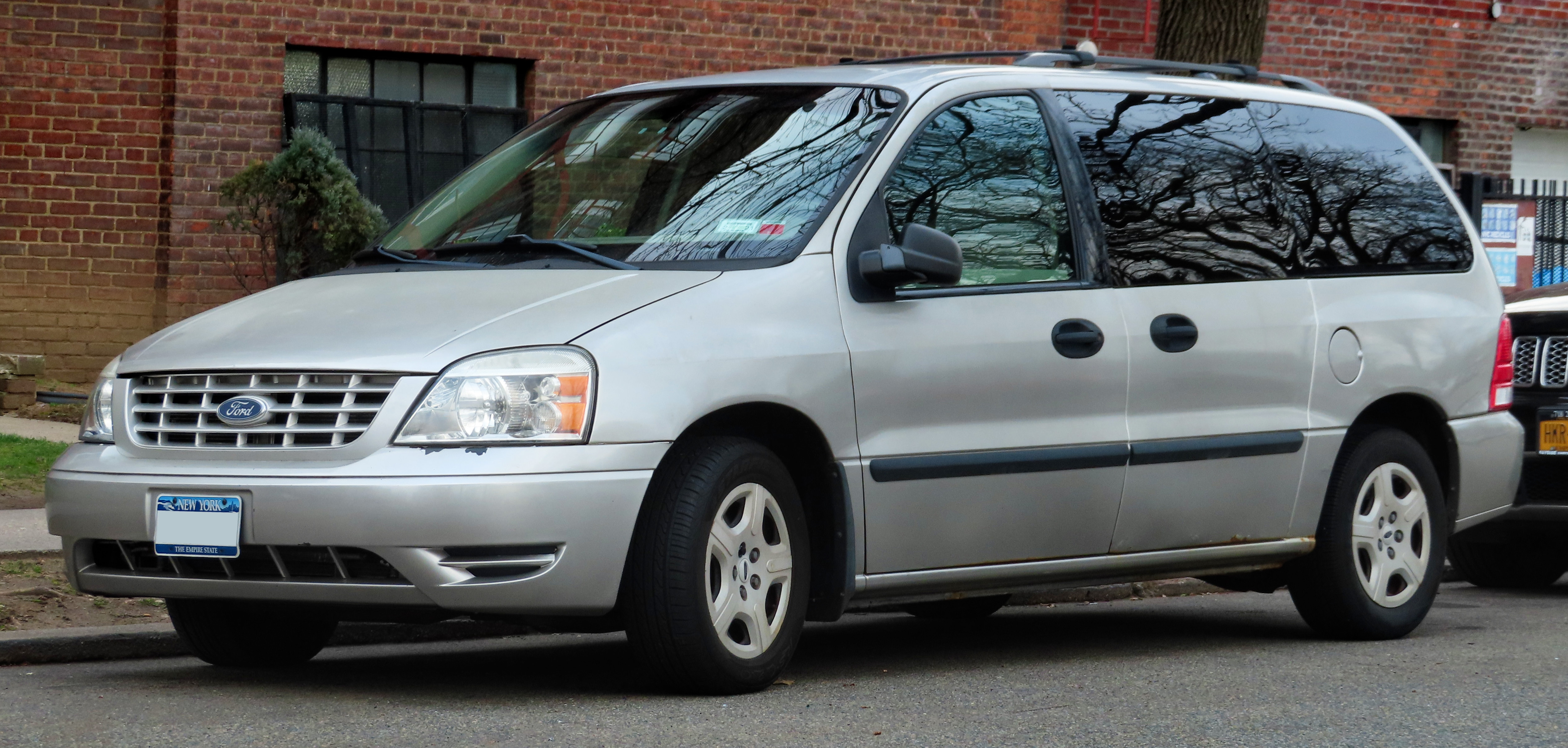 A 2004 Ford Freestar SE photographed in Kew Gardens Hills, Queens, New York, USA